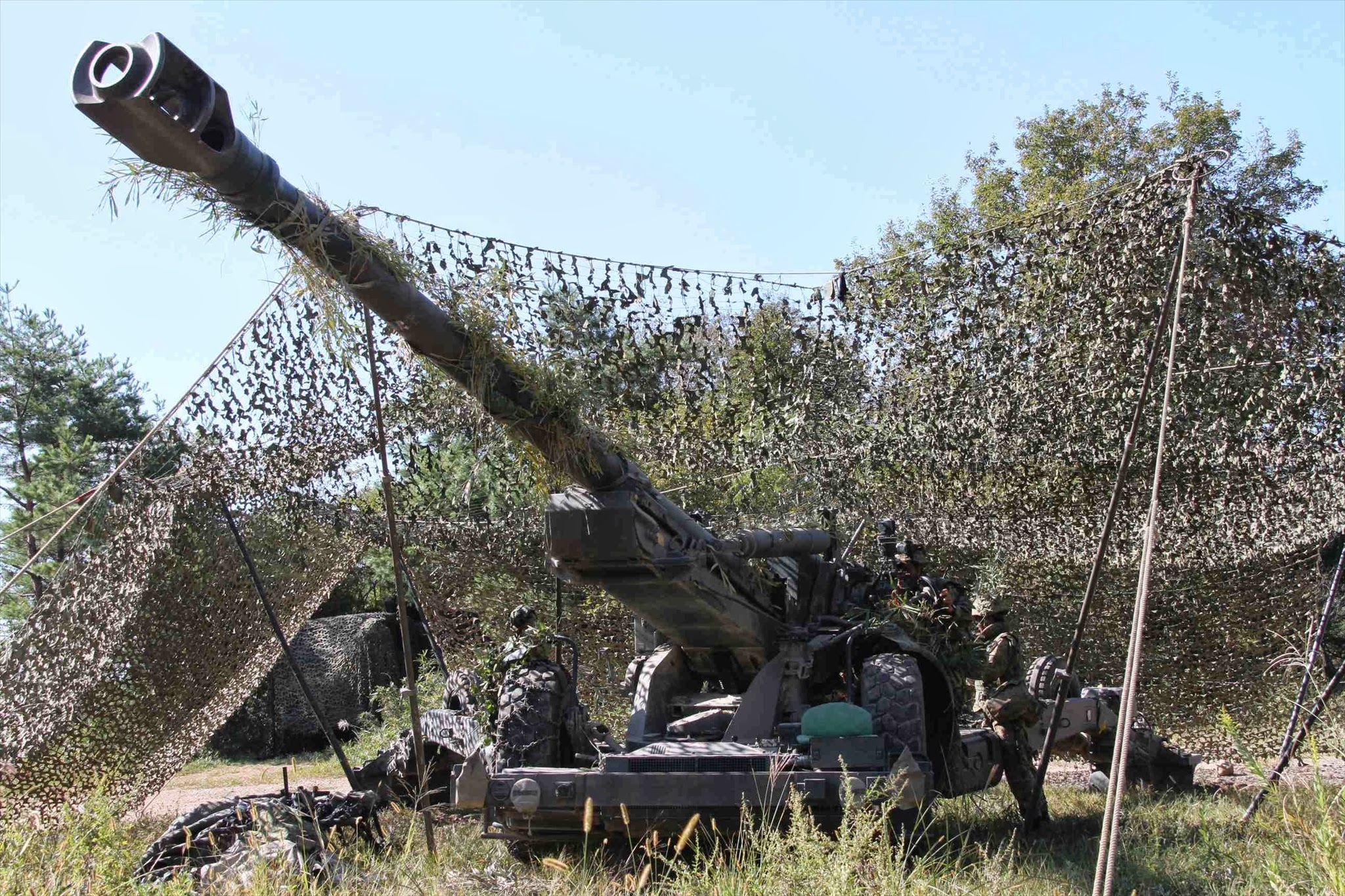 Title IMG_0083.JPG Album 教育訓練等 訓練検閲（第１３特科隊・日本原）